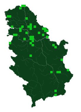 Rasprsotranjenje vrste u Srbiji (Alciphron)